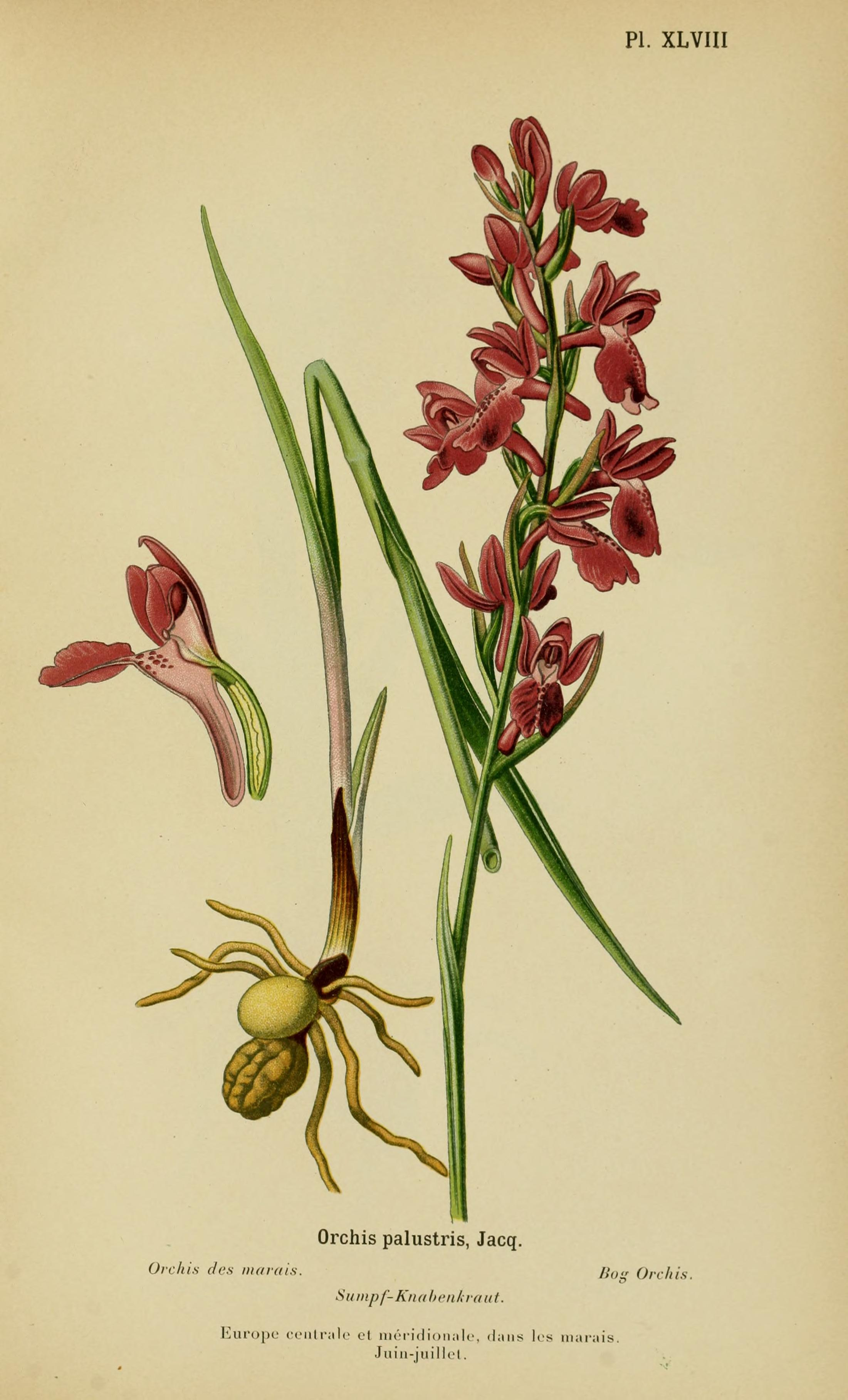 Title: Album des orchidées de l'Europe centrale et septentrionale Year: 1899 (1890s) Authors: Correvon, Henry, 1854-1939 Subjects: Publisher: Genève, Librairie Georg Text Appearing Before Image: PI. XLVIII Text Appearing After Image: Orchis palustris, Jacq. Orchis des marais., Bog Orchis., Sumpf-Knabenkraut., Europe centrale et méridionale, dans les marais. Juin-juillet.